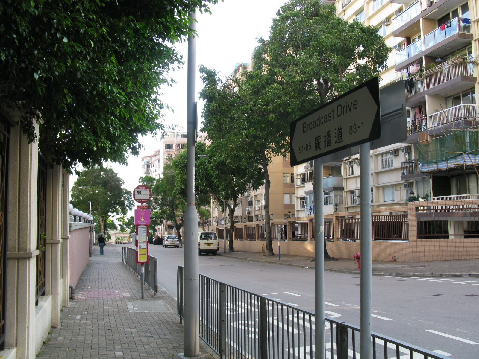 Road name sign and bus stop of Broadcast Drive.